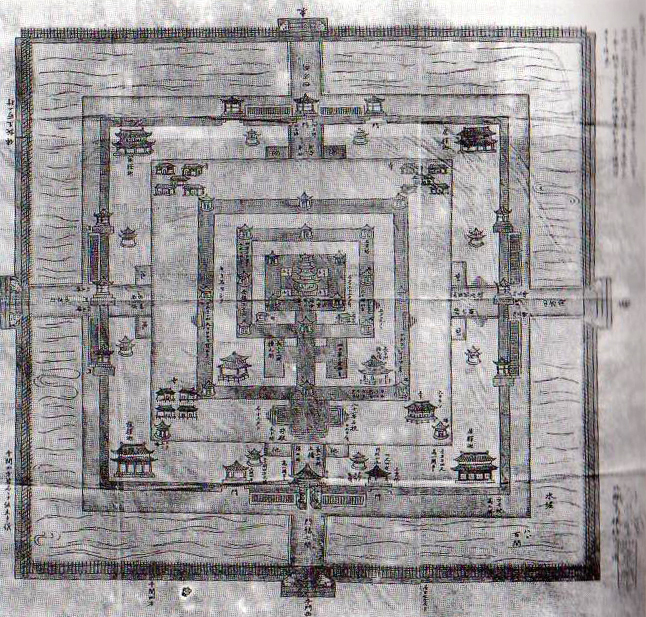 Map of Angkor Wat by Japanese pilgrim